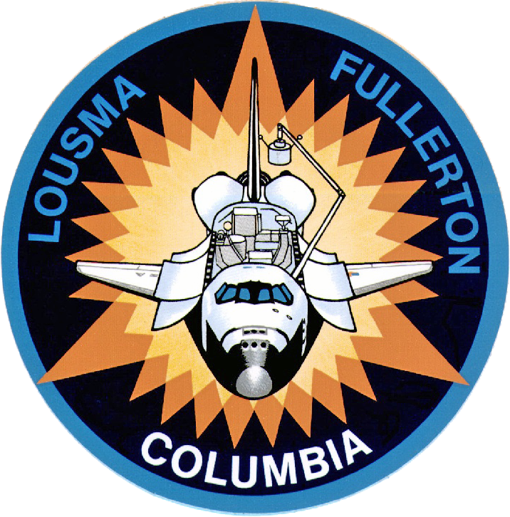 Logo of Sts-3 mission